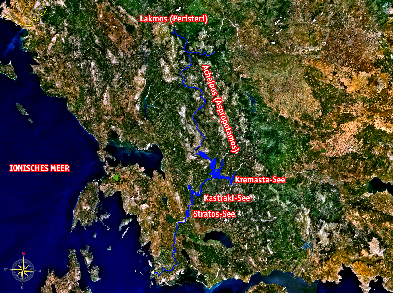 River Acheloos in Greece. Course tracked on Nasa World Wind satellite image